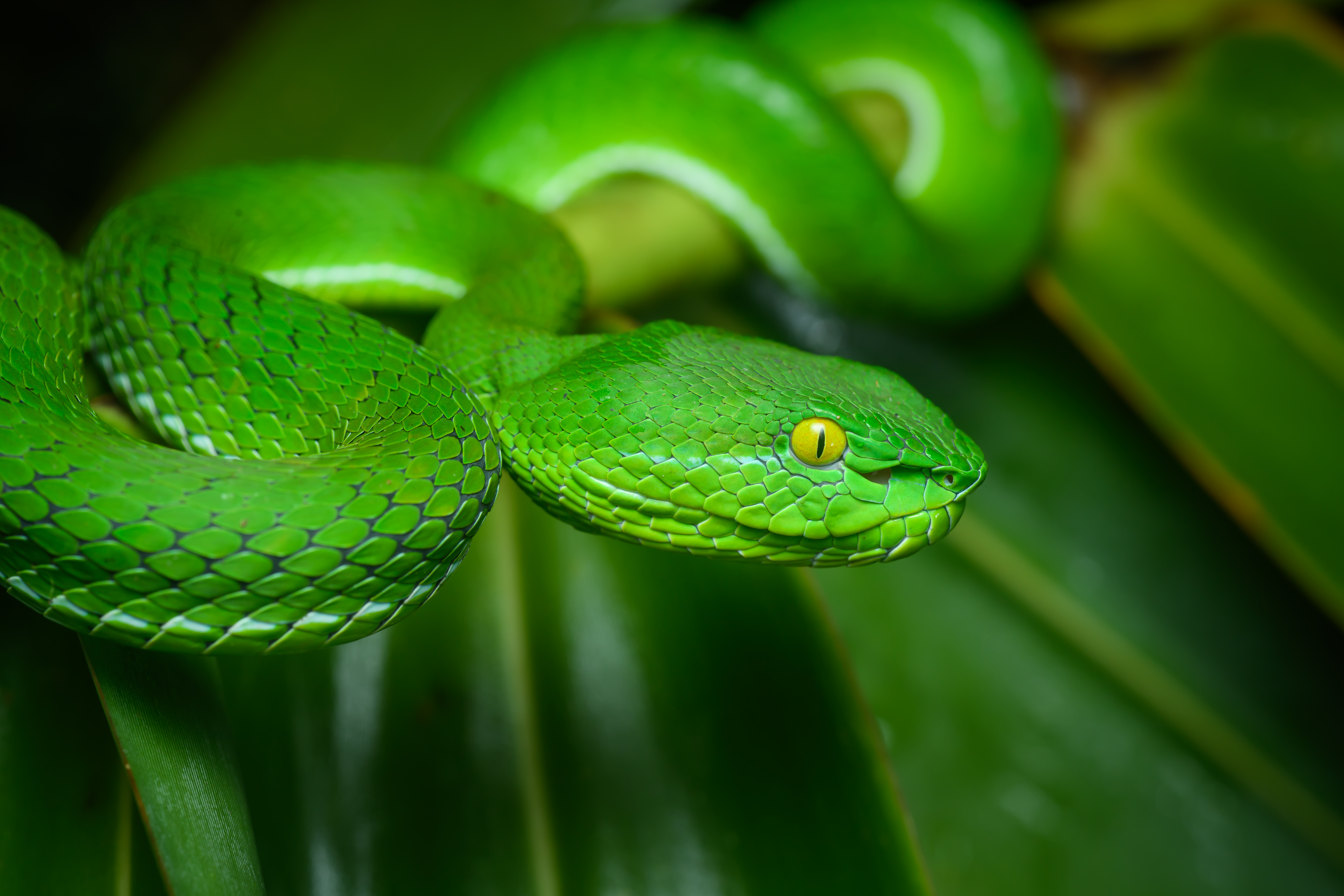 Female Gumprecht’s green pitviper (Trimeresurus gumprechti). Phu Suan Sai National Park, Thailand.